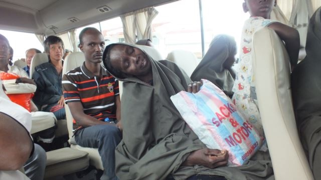 After months of captivity by suspected Boko Haram militants, ex-hostages arrive at Cameroon's Yaounde Nsimalen International Airport. Articles liés Boko Haram a fait 11.000 morts depuis 1998 au Nigeria Multimedia Photogalerie Nigeria : annonce d'un accord avec Boko Haram sur la libération des lycéennes et d'un cessez-le-feu 12.10.2014 15:37